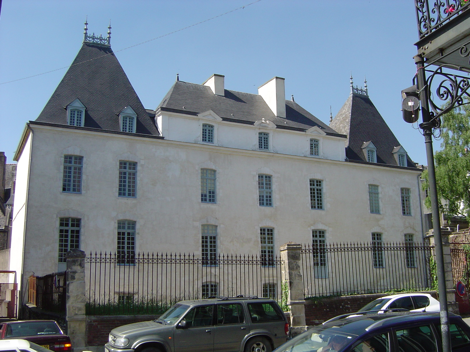 Sévigné-Nétumières Hotel (18th century)